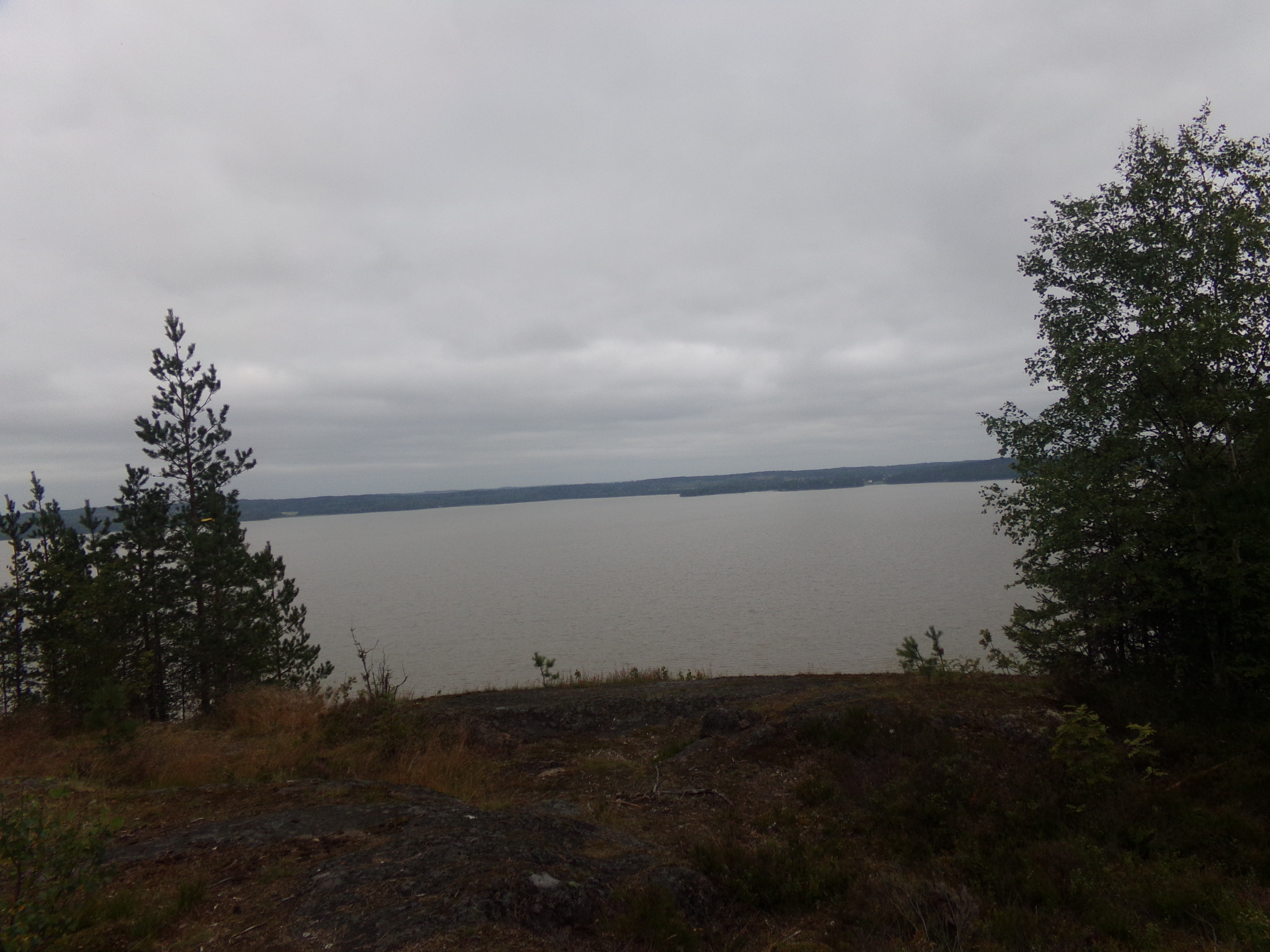 View from the hill Tornikallio to Pyhäjärvi. The hill is notable for the "Porlom" marker of the Struve Geodetic Arc.